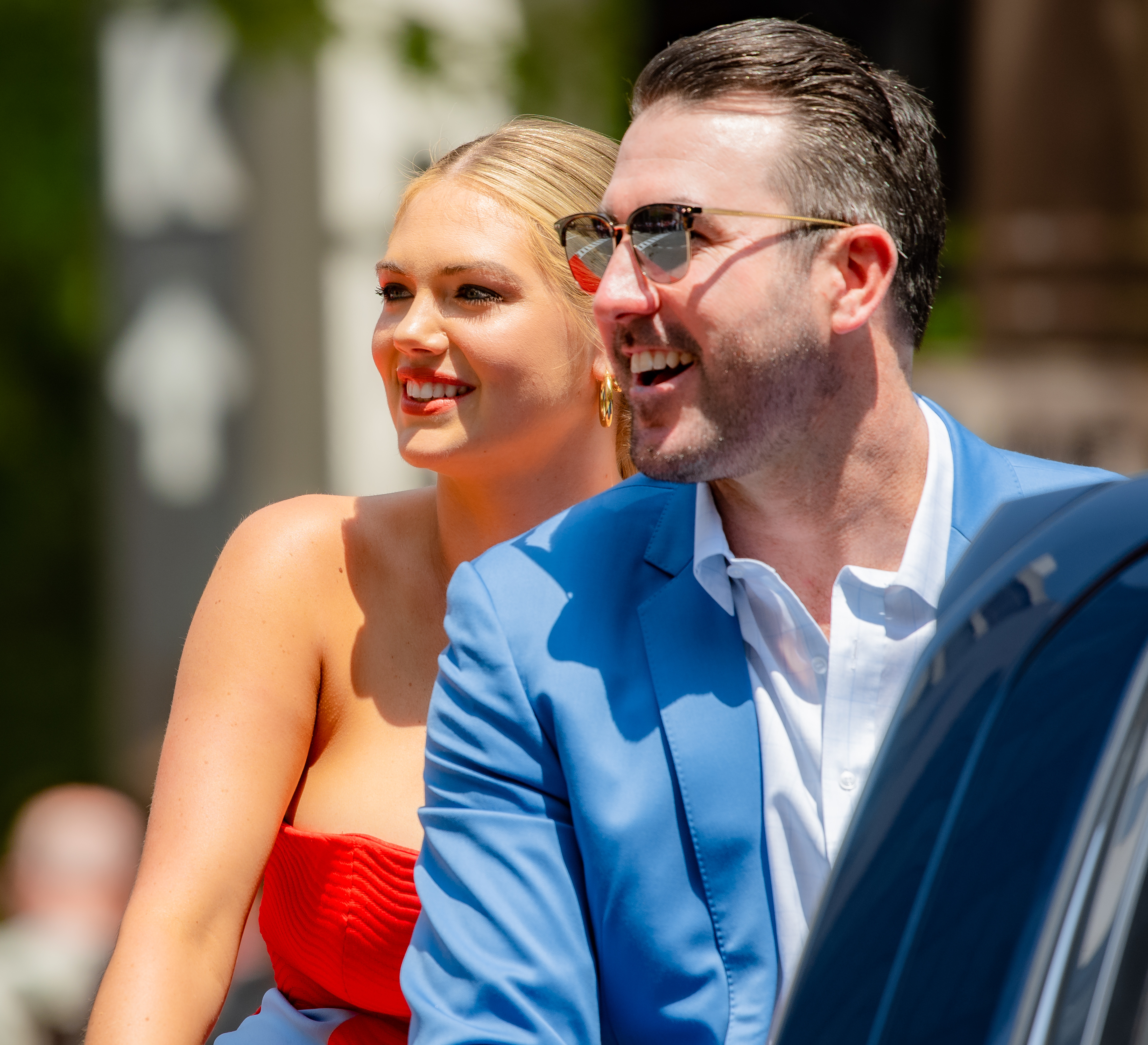 Kate Upton and Justin Verlander during the 2019 Major League Baseball All-Star Parade in Cleveland